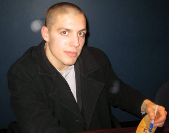 David Perron, NHL player